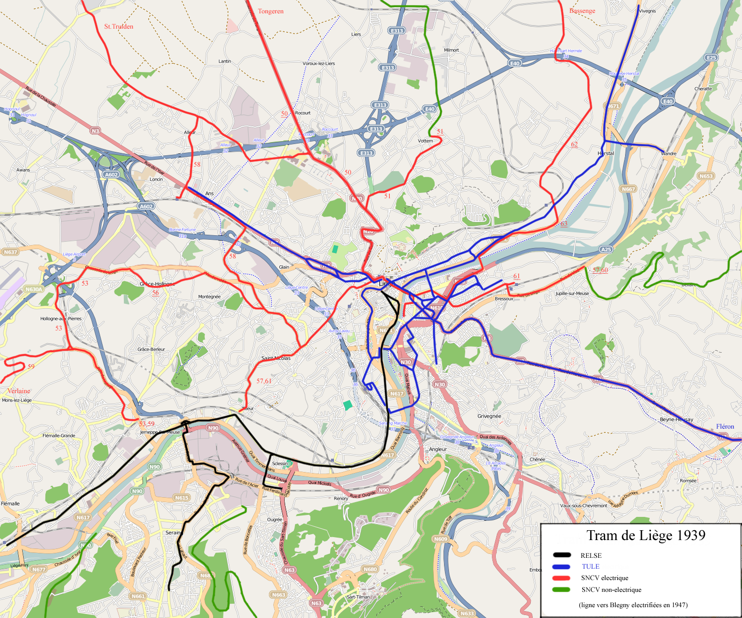 Map of the tramway networks in Liege in 1939. Black lines = RELSE tram lines Blue lines = TULE tram lines Red lines = SNCV electric lines Green lines = SNCV non-electric lines